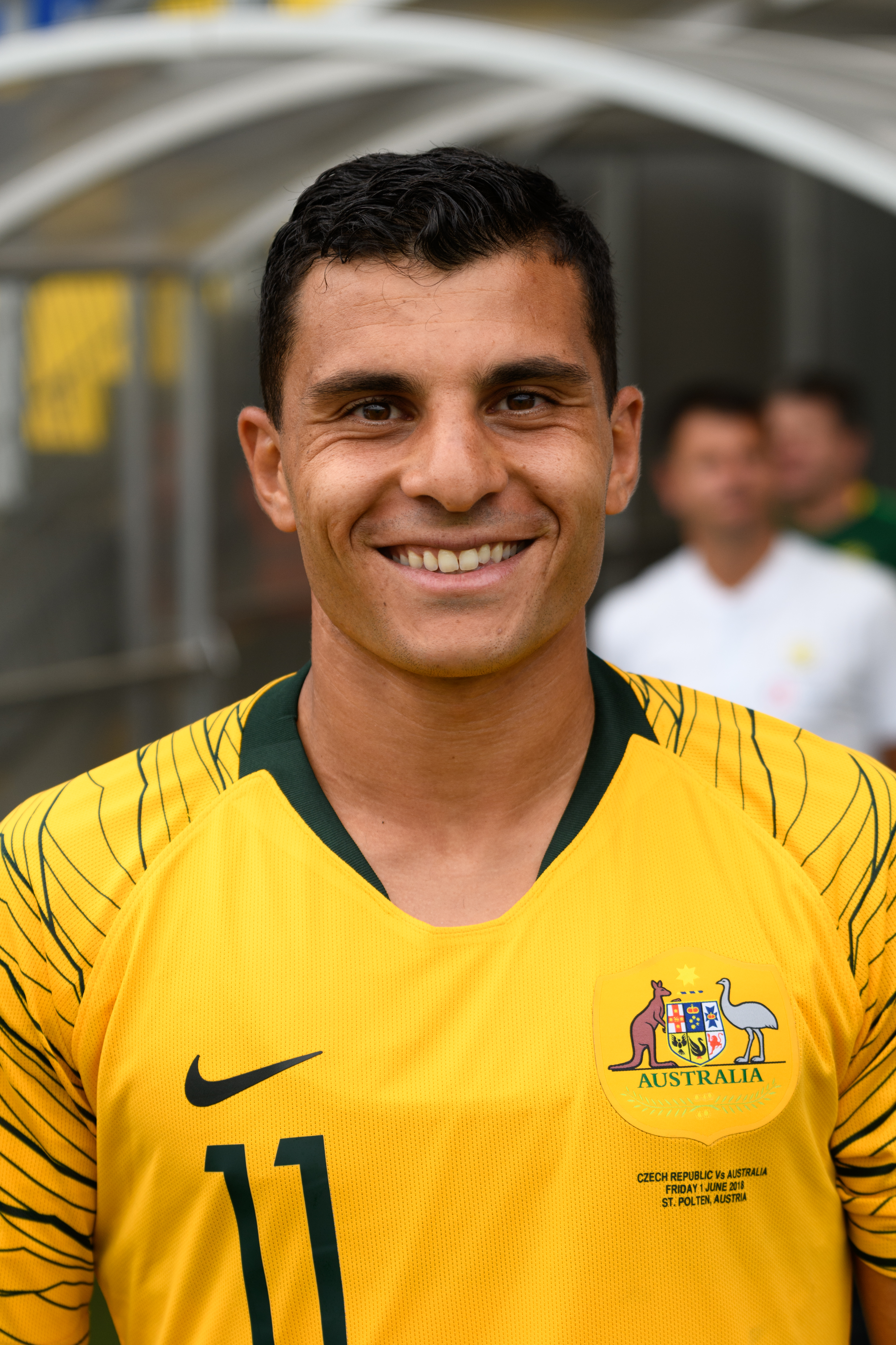 FIFA Friendly Match Czech Republic vs.Australia 2018/03/27. Picture shows Andrew Nabbout (AUS).